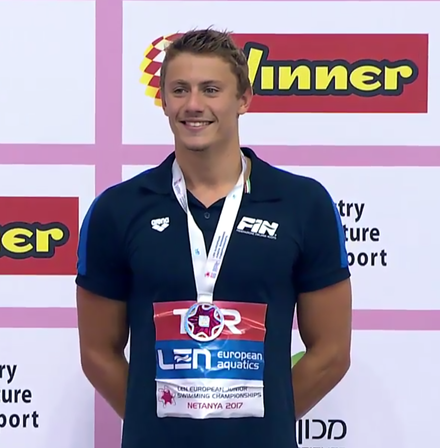 Nicolò Martinenghi, 2017 LEN European Junior Swimming Championships